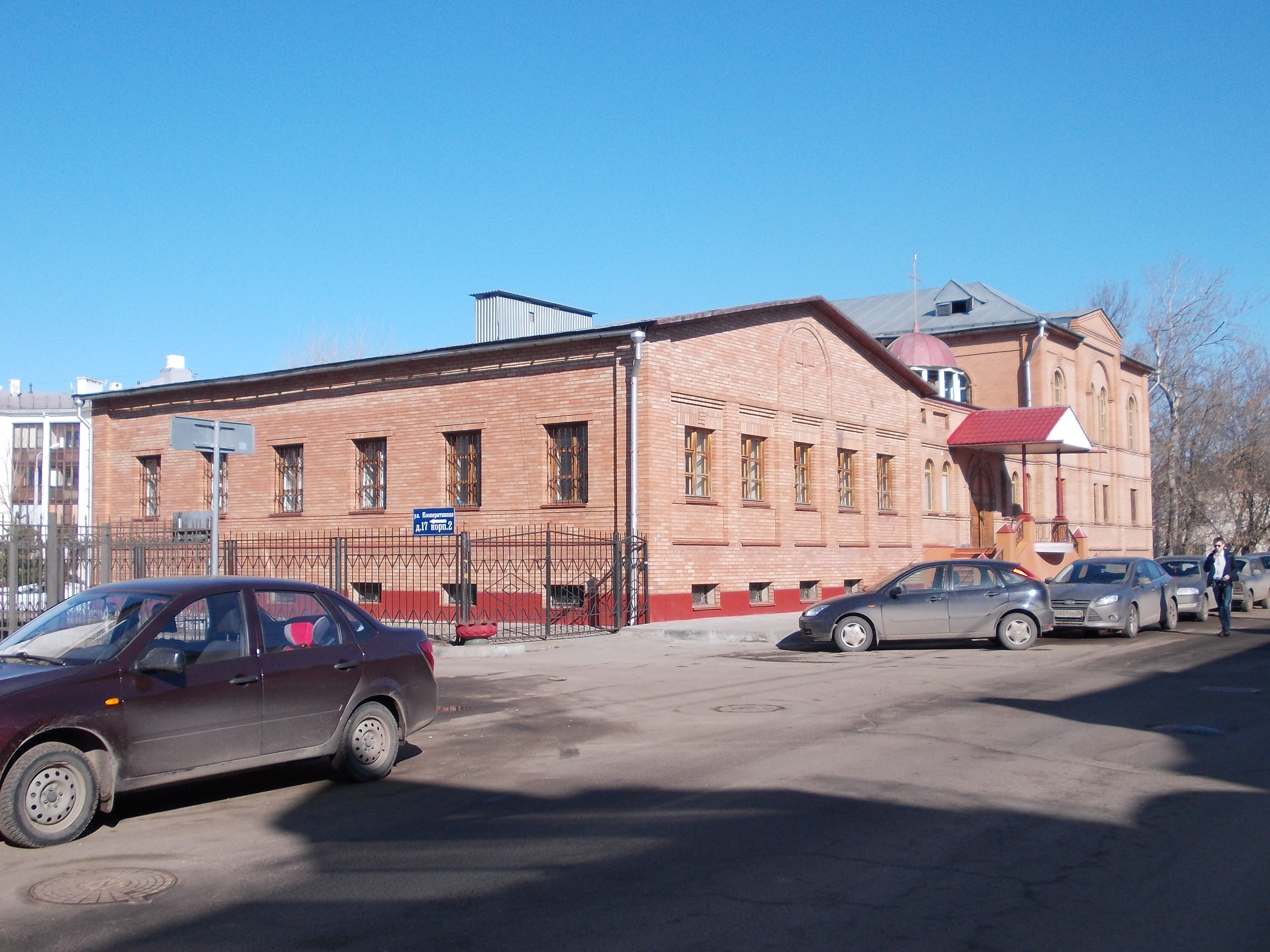 Baptist church “Good news” in Yaroslavl.